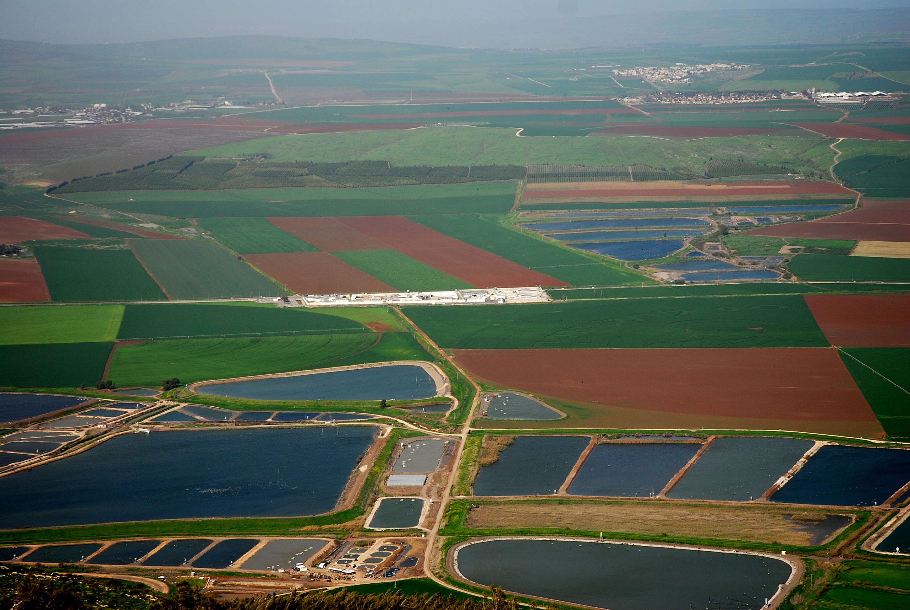 The Jezreel Valley as seen from Mount Gilboa